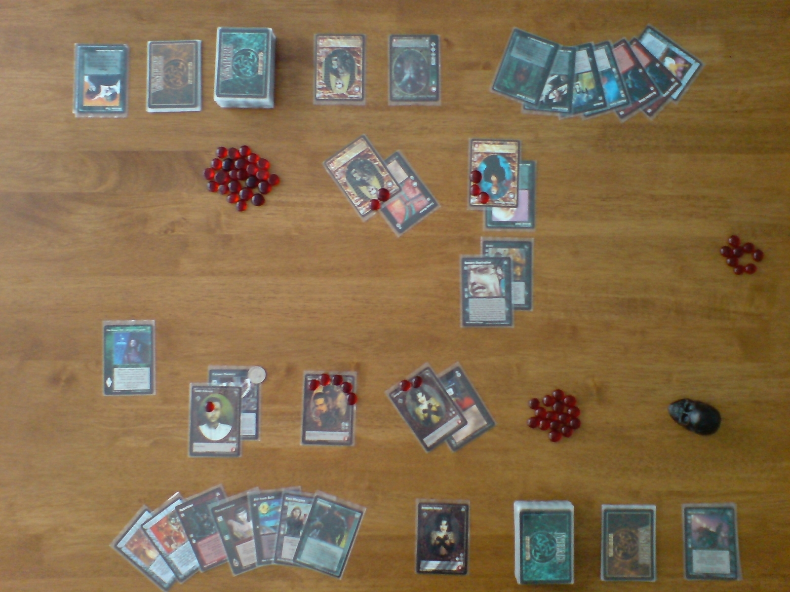 An in-progress two-player game of Vampire: The Eternal Struggle, formerly called Jyhad. Set up is a fictional situation between two decks (Ravnos and Tzimisce) after about 4 rounds of play. Note that games usually have 3-5 players, and that the two 7-card fans in the top and bottom rows would not normally be openly visible.